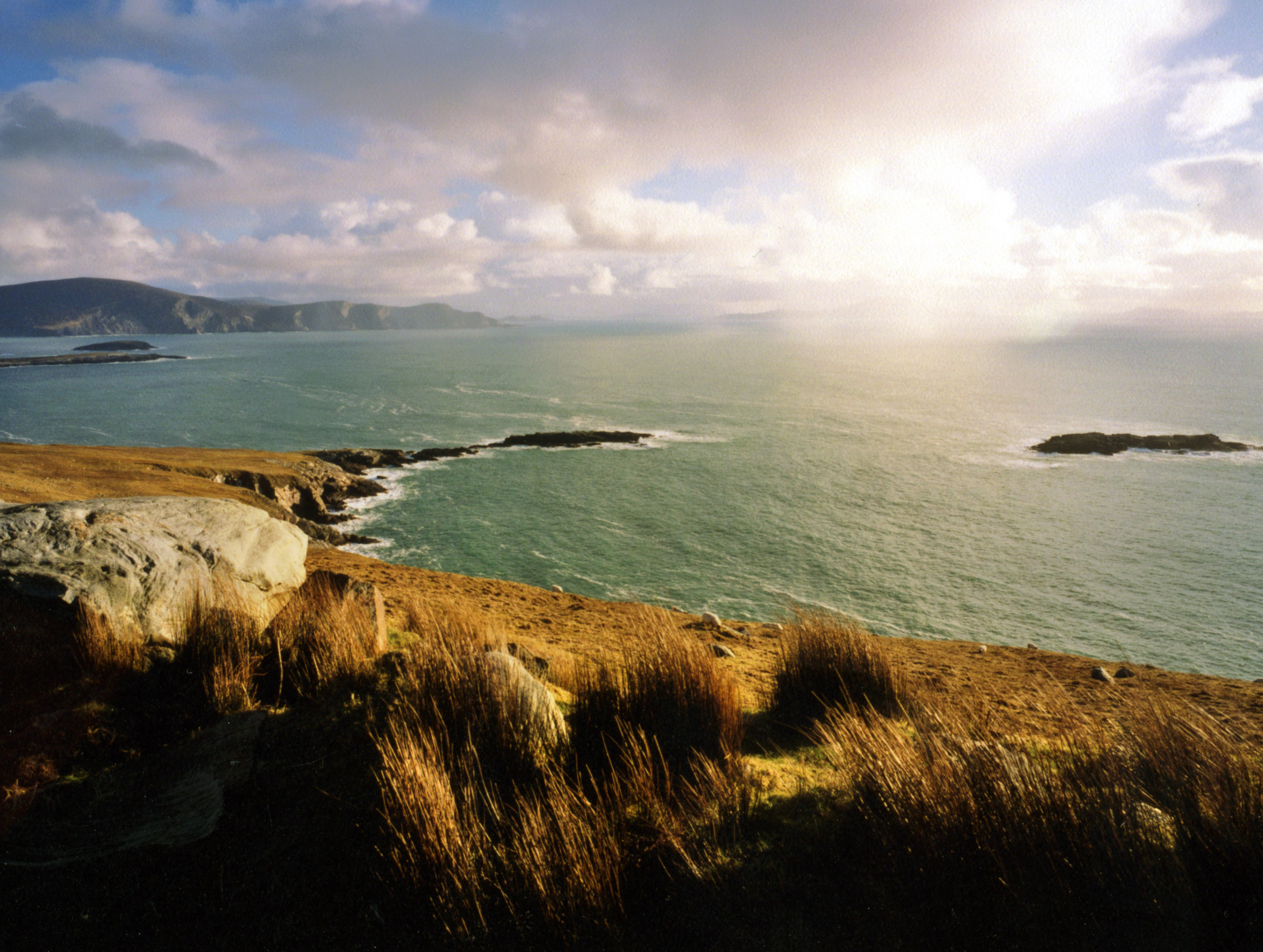 Clare island in the BG in the rain clouds, home of the O'Malley Clan in the middle age...